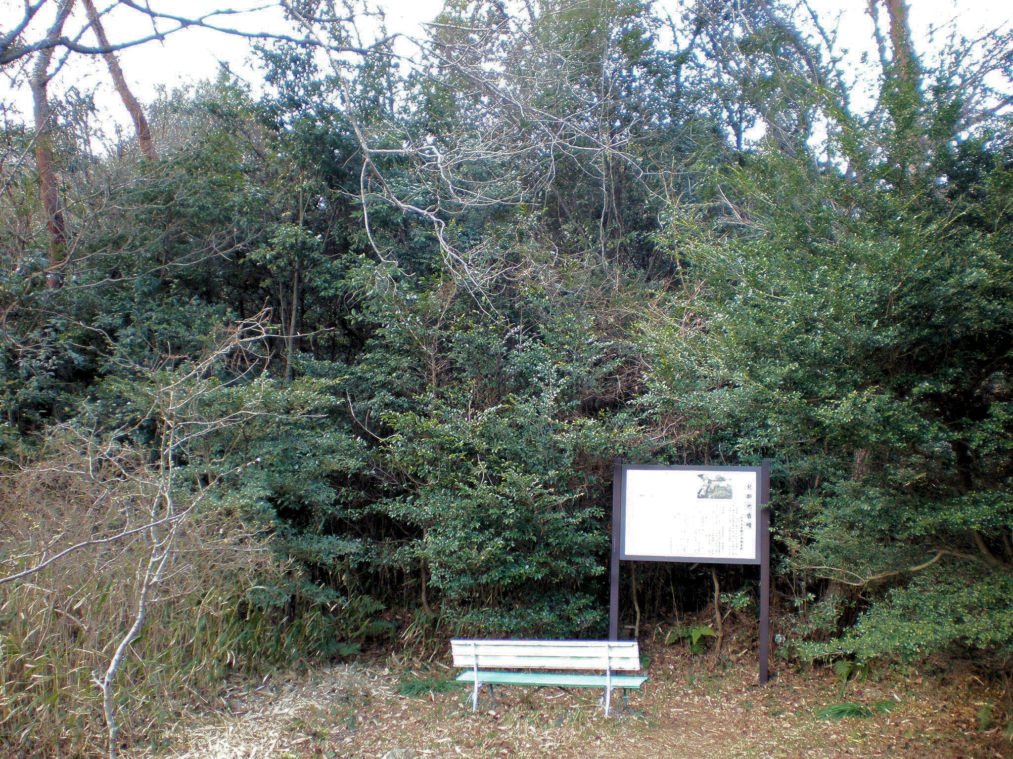 Kitashinike Kofun